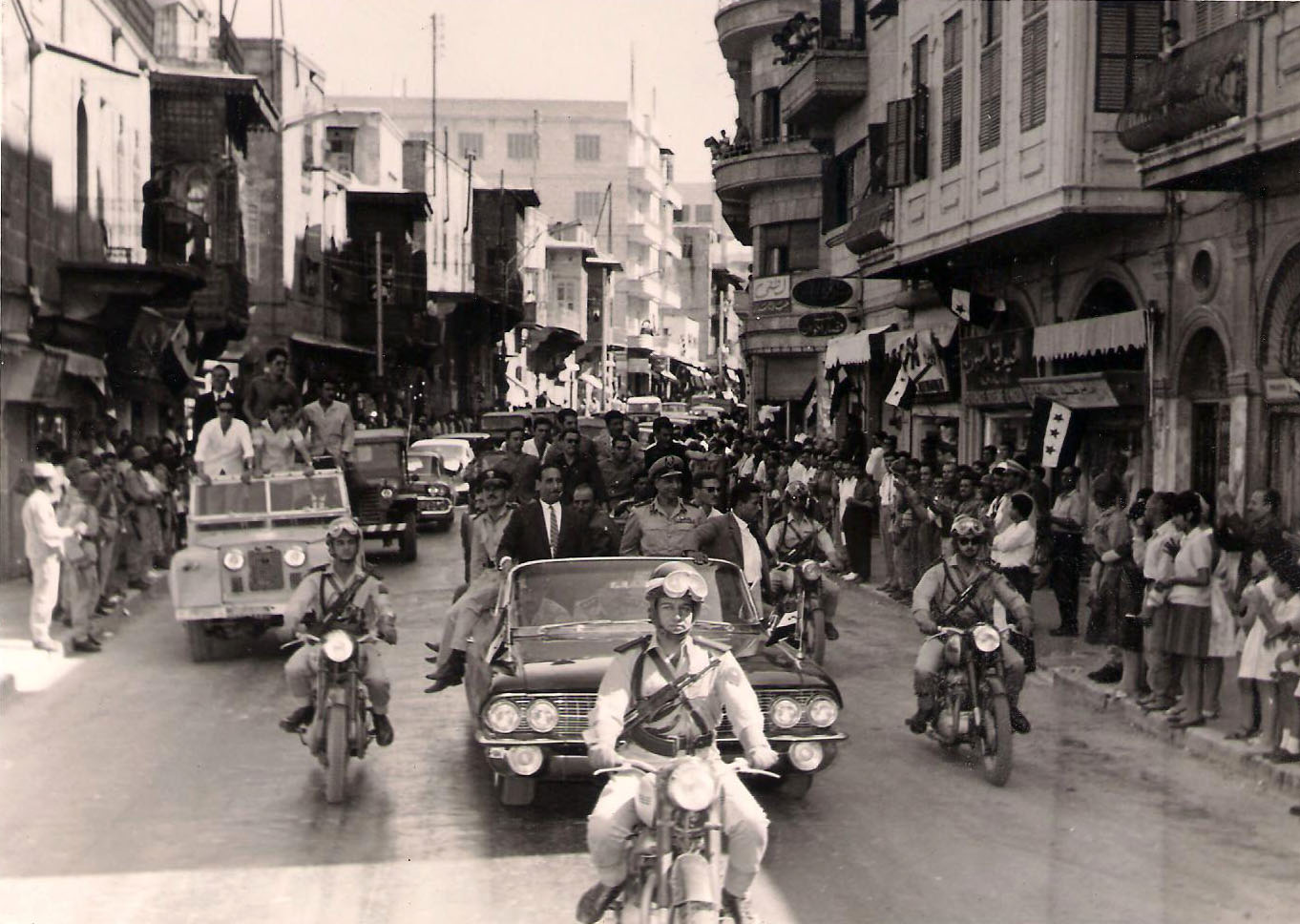 Iraqi President Abdel Salam Mohamed Aref, on a Damascus street during his visit to Syria